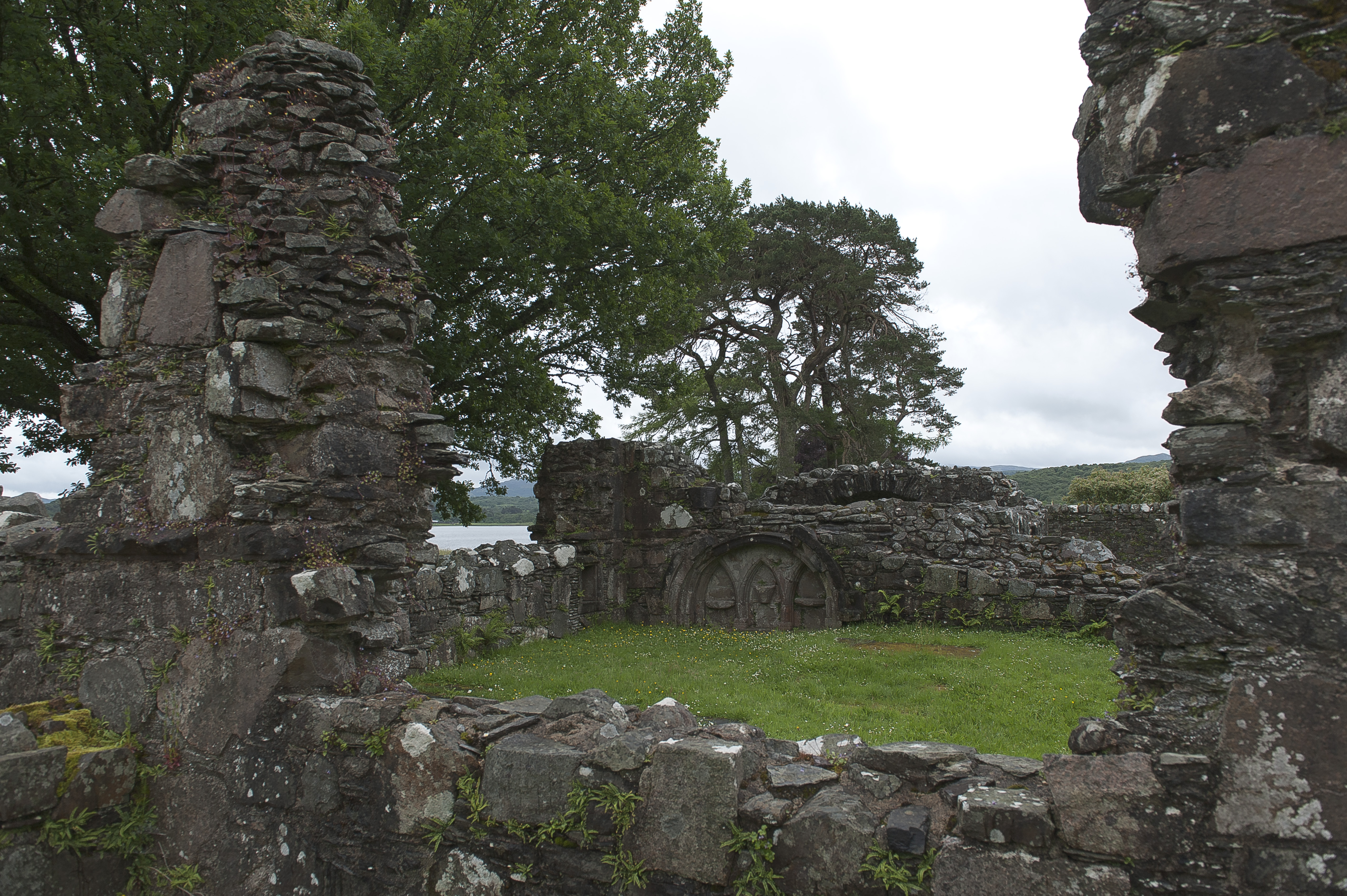 Ardchattan Priory, Oban, Scotland